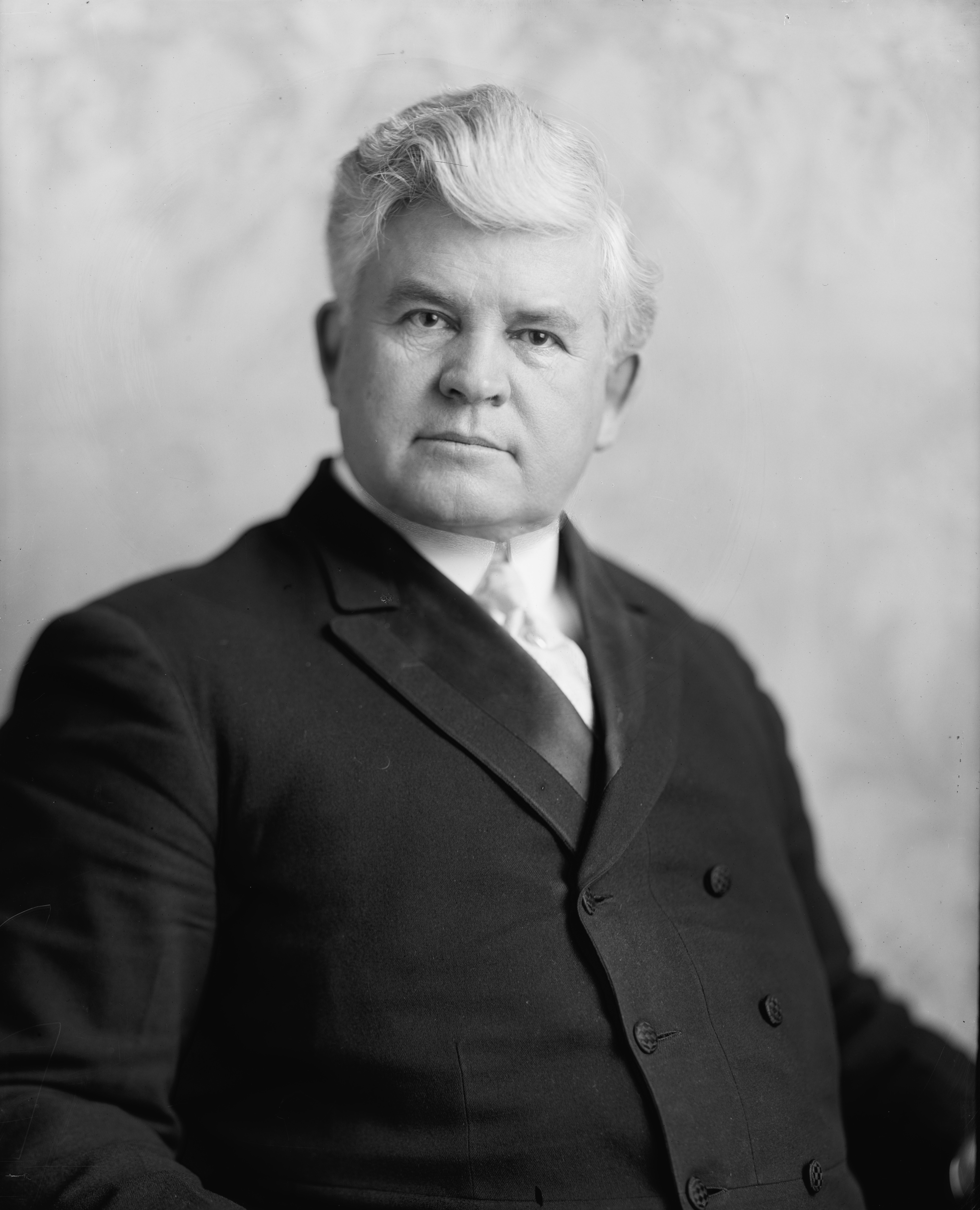 Title: RAINEY, HENRY T. HONORABLE Abstract/medium: 1 negative : glass ; 8 x 10 in. or smaller